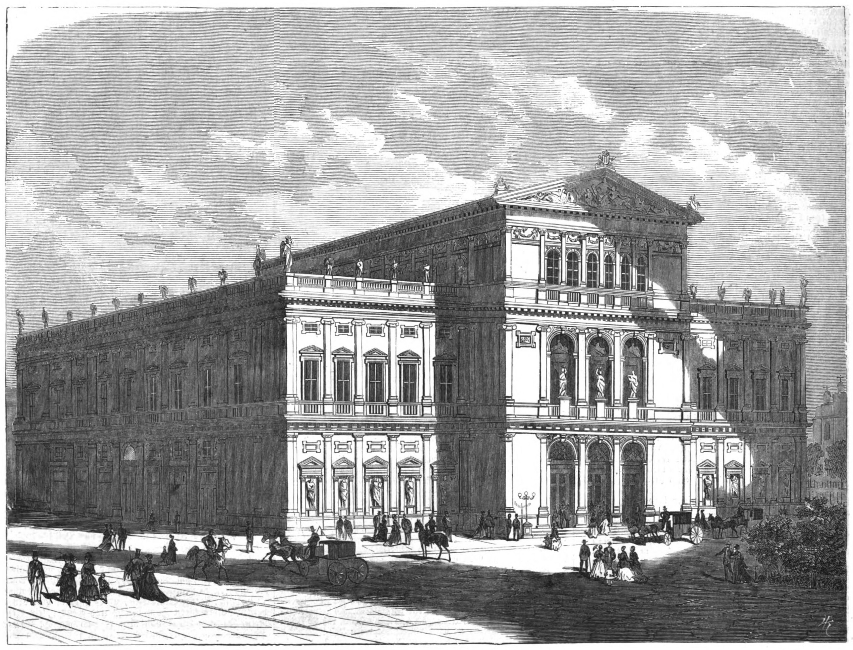 Wiener Musikverein 1870 Xylography after the drawing by Vinzenz Katzler.